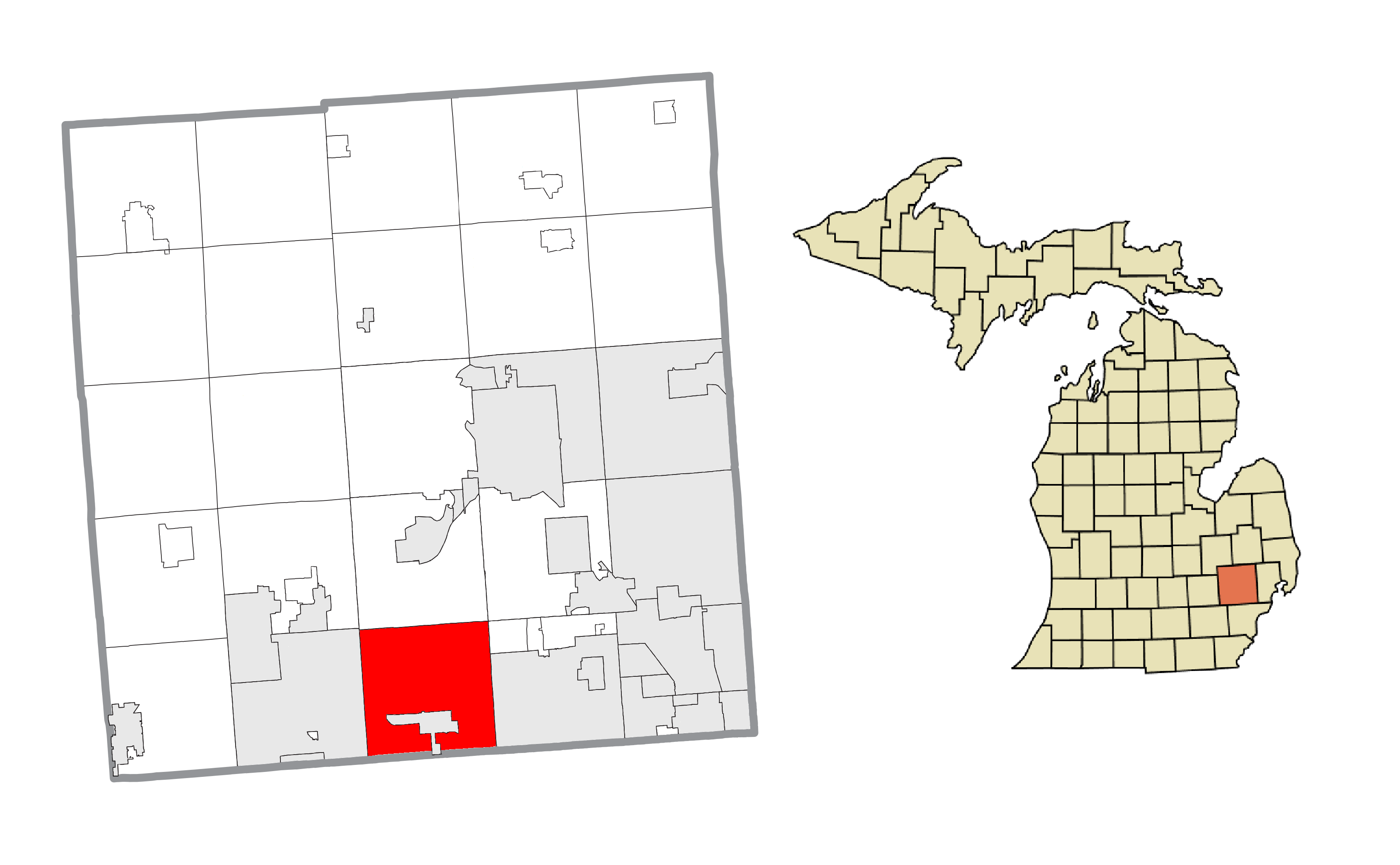 Farmington Hills, MI